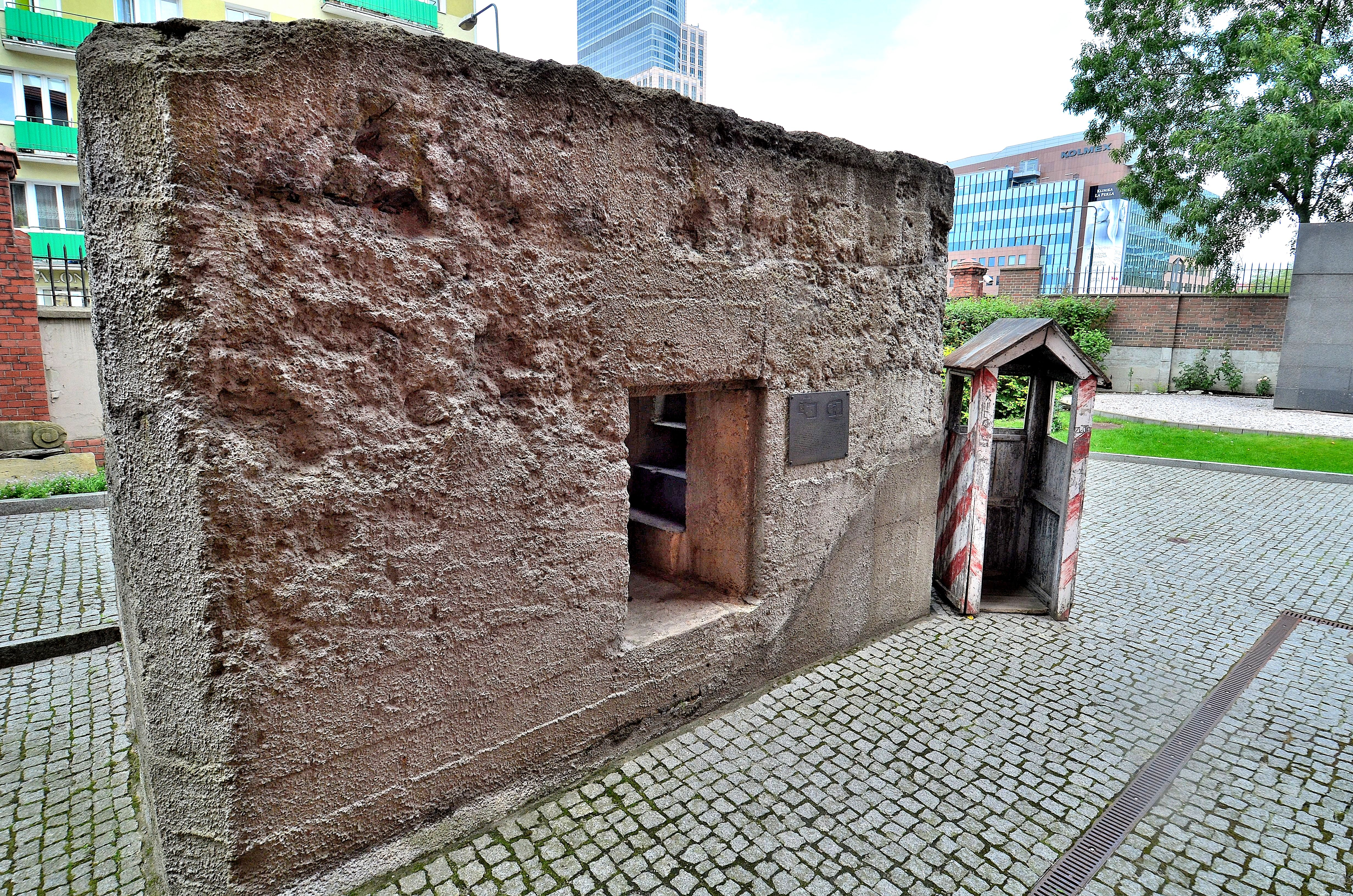 German bunker Ringstand 58c (Tobruk) at the Warsaw Uprising Museum